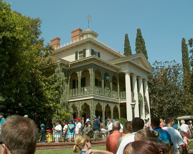 Haunted Mansion at Disneyland, California, 2002